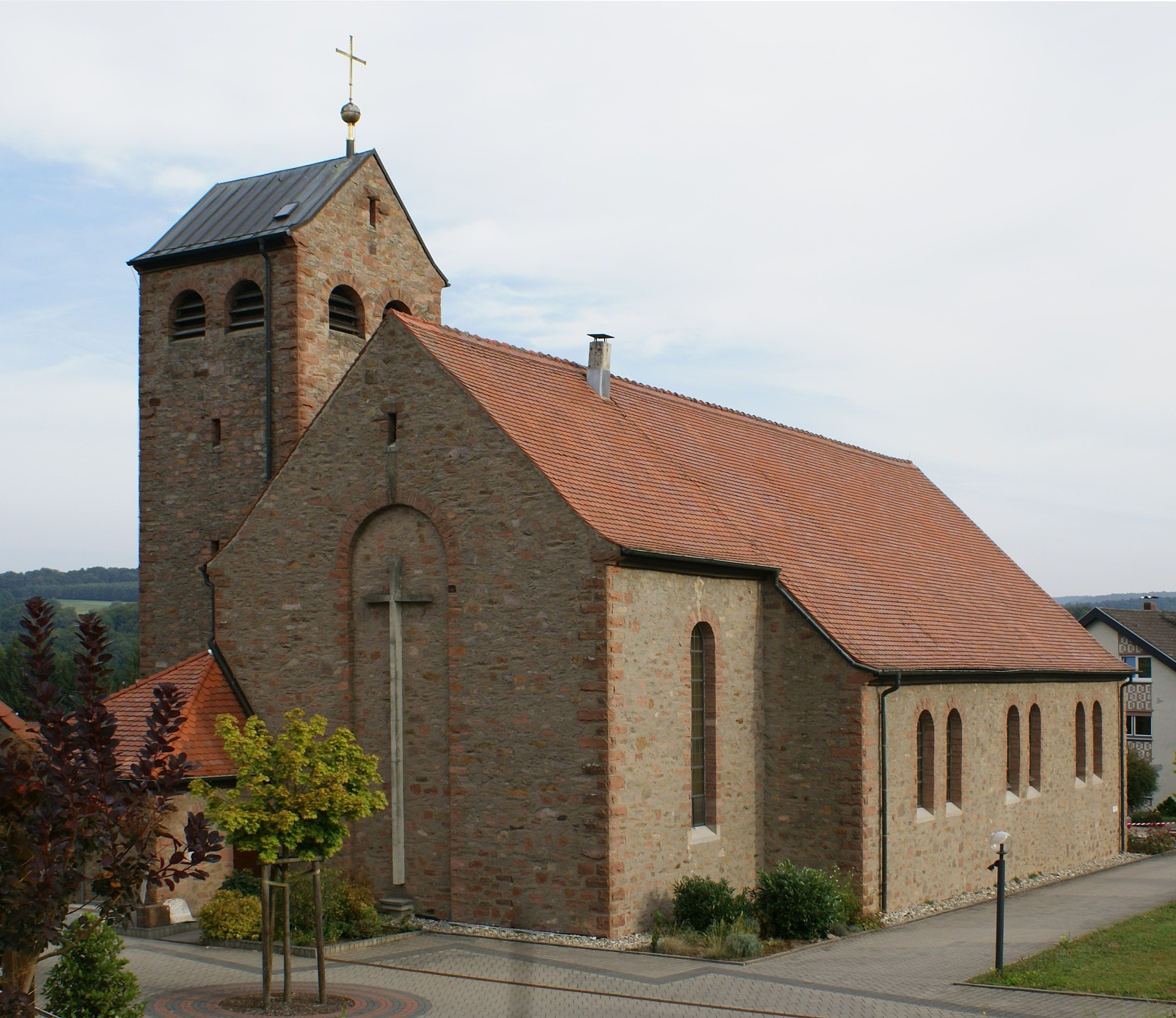 The church Herz Mariä in Schneppenbach which is part of the community Schöllkrippen is a mighty construction